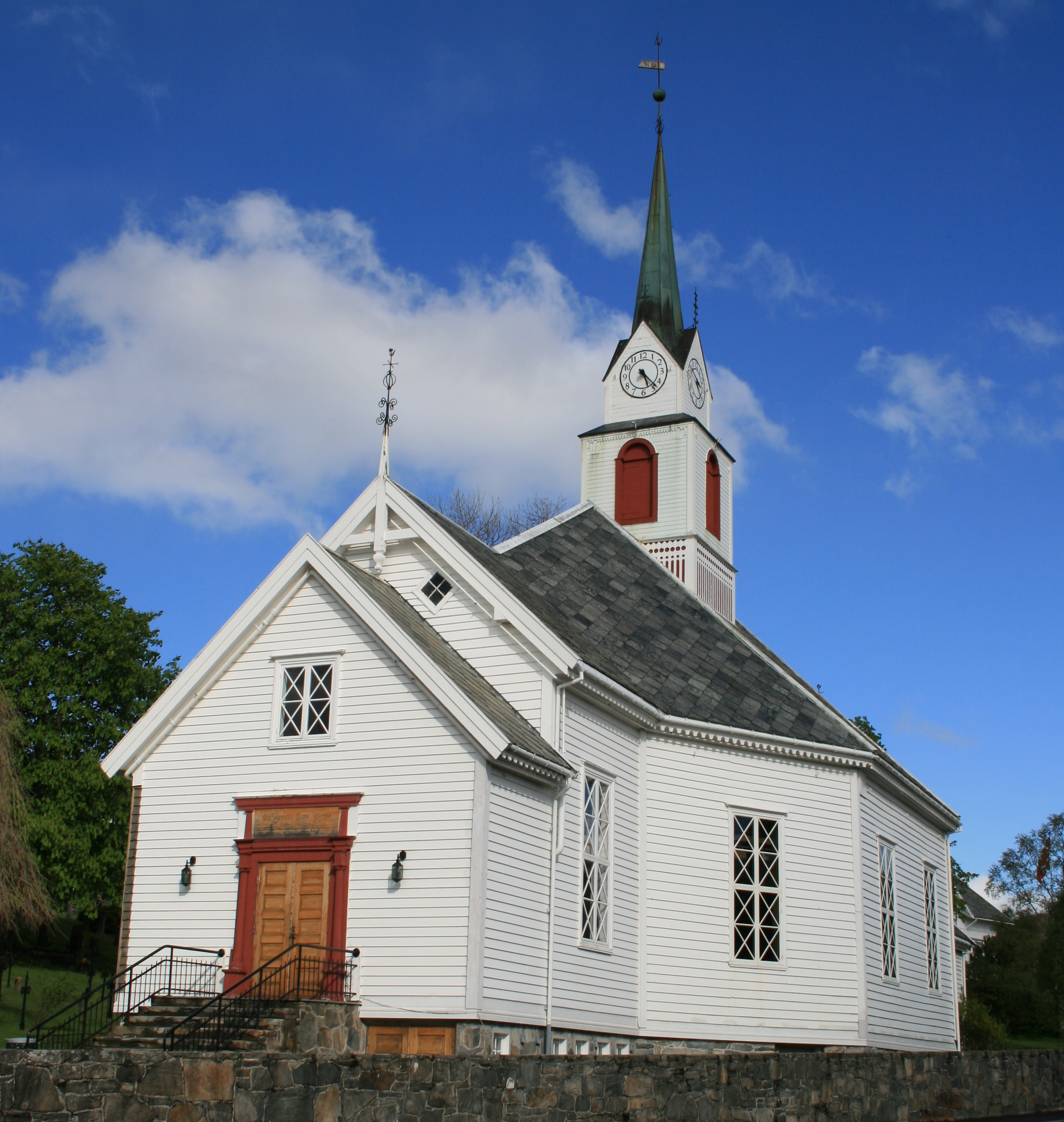 Ulstein church, cropped original